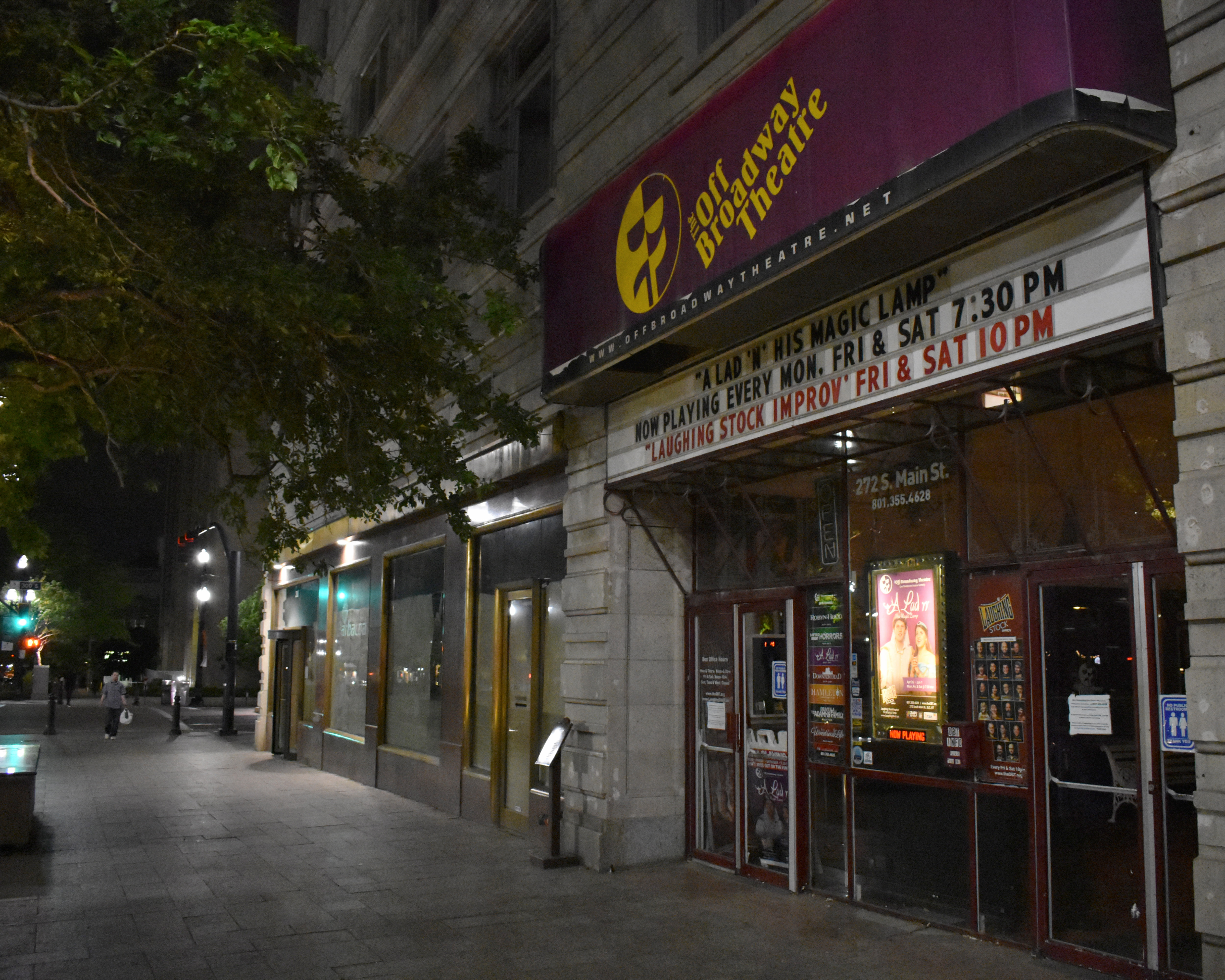 The Off Broadway Theatre in Salt Lake City is in the Clift Building.